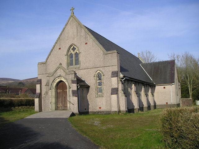 Former parish church of St Margaret, Glanaman, Carmarthenshire, seen from the southwest. Built in the mid 1930s and closed in 2008.